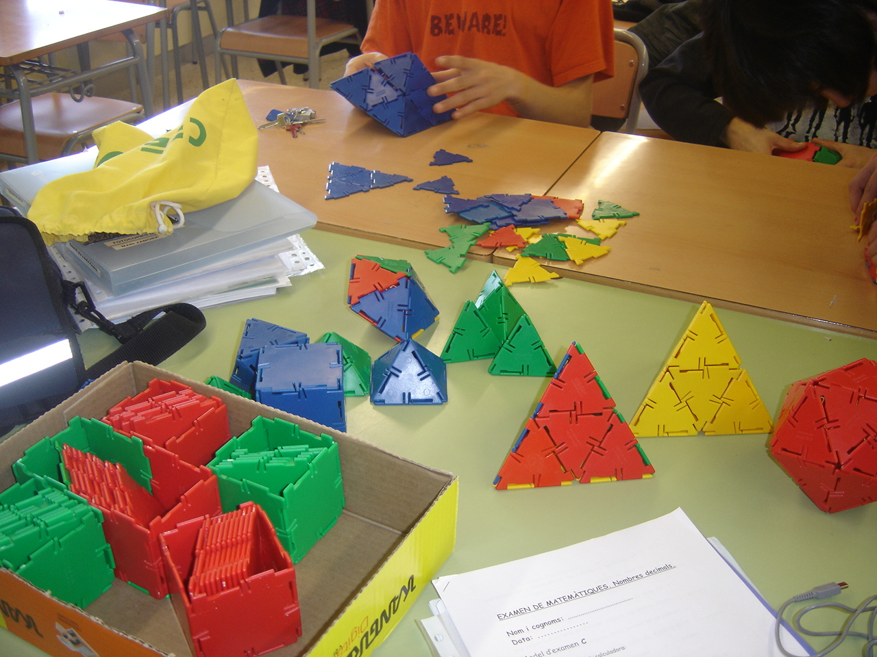 Polyedra created using Polydron